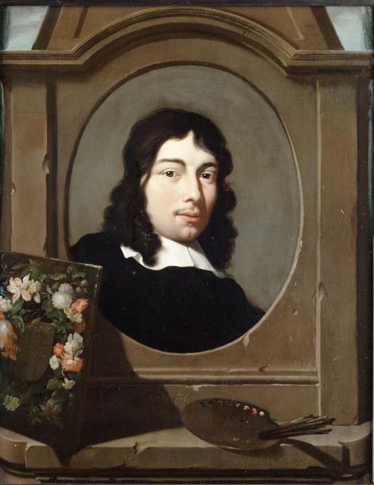 Portrait of the artist Pieter Gallis, with an example of his work